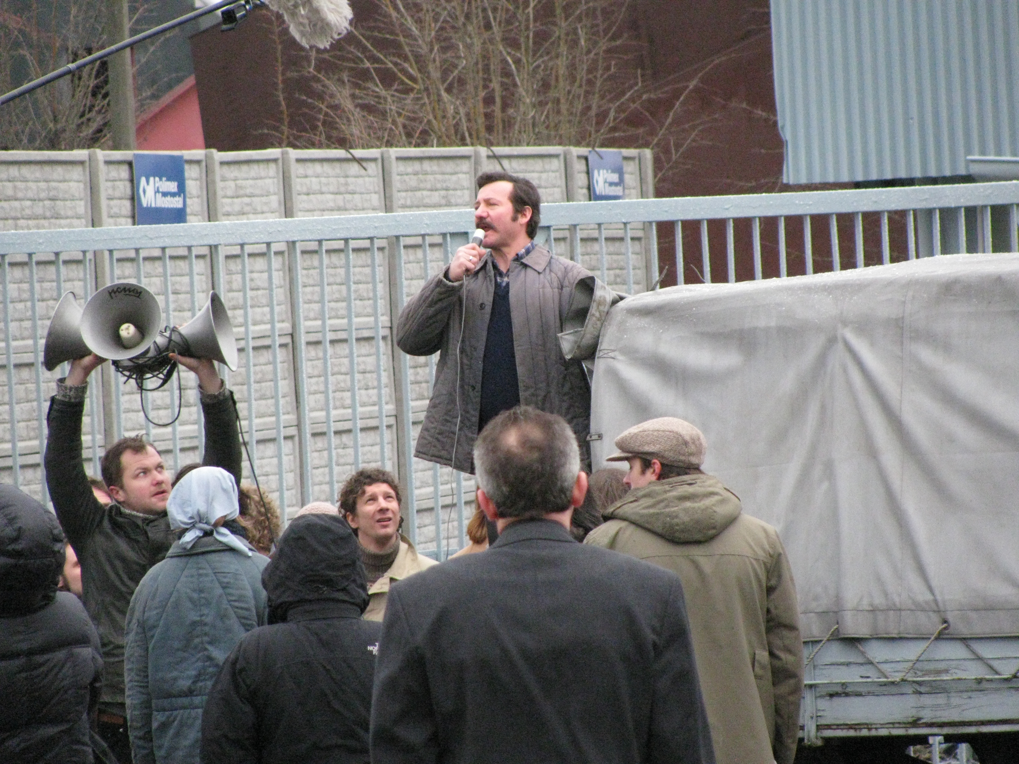 "Wałęsa" the movie set in Gdańsk. Robert Więckiewicz as Lech Wałęsa.